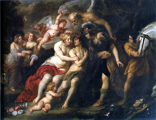 Hercules at the crossroads / Florence, Musée des Offices